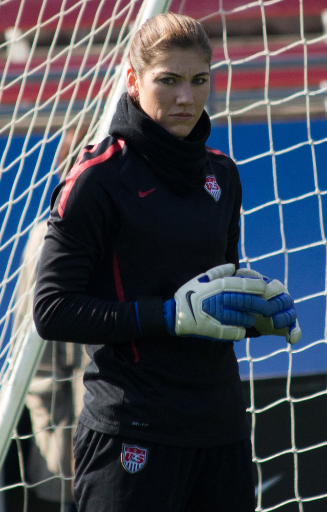 Hope Solo of the United States Women's National Soccer Team in Frisco, Texas.